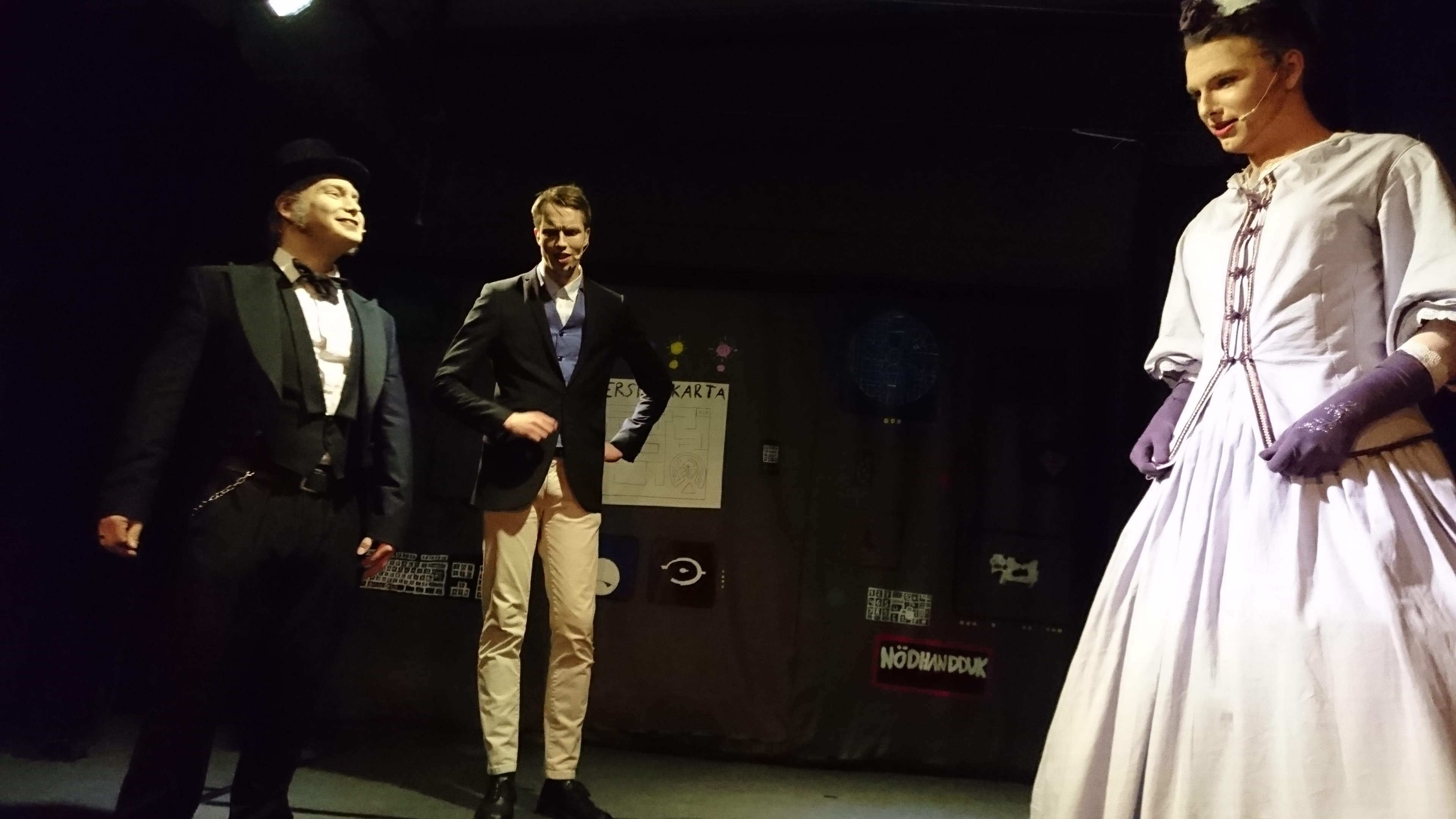 F-spexet Jules Verne 2017. The characters Michael Faraday, Jules Verne and Ada Lovelace.